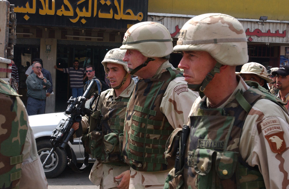 On patrol in Mosul, Iraq with General Peter Schoomaker and then-Major General David H. Petraeus, commander of the 101st Airborne Division (AASLT)